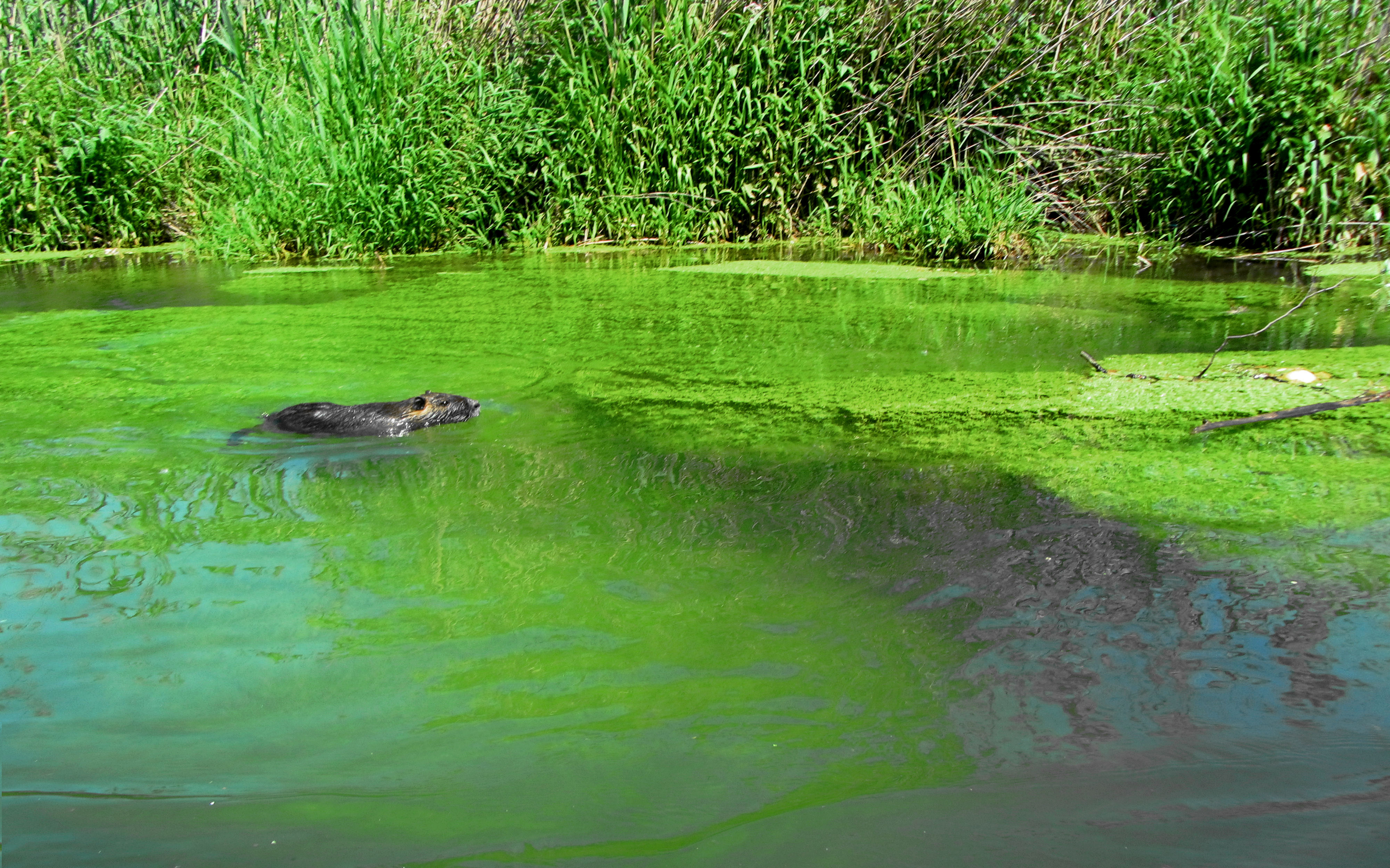 Nutria (Myocastor coypus) im Naturschutzgebiet Taubergießen, Baden-Württemberg. NSG Nr. 3.233